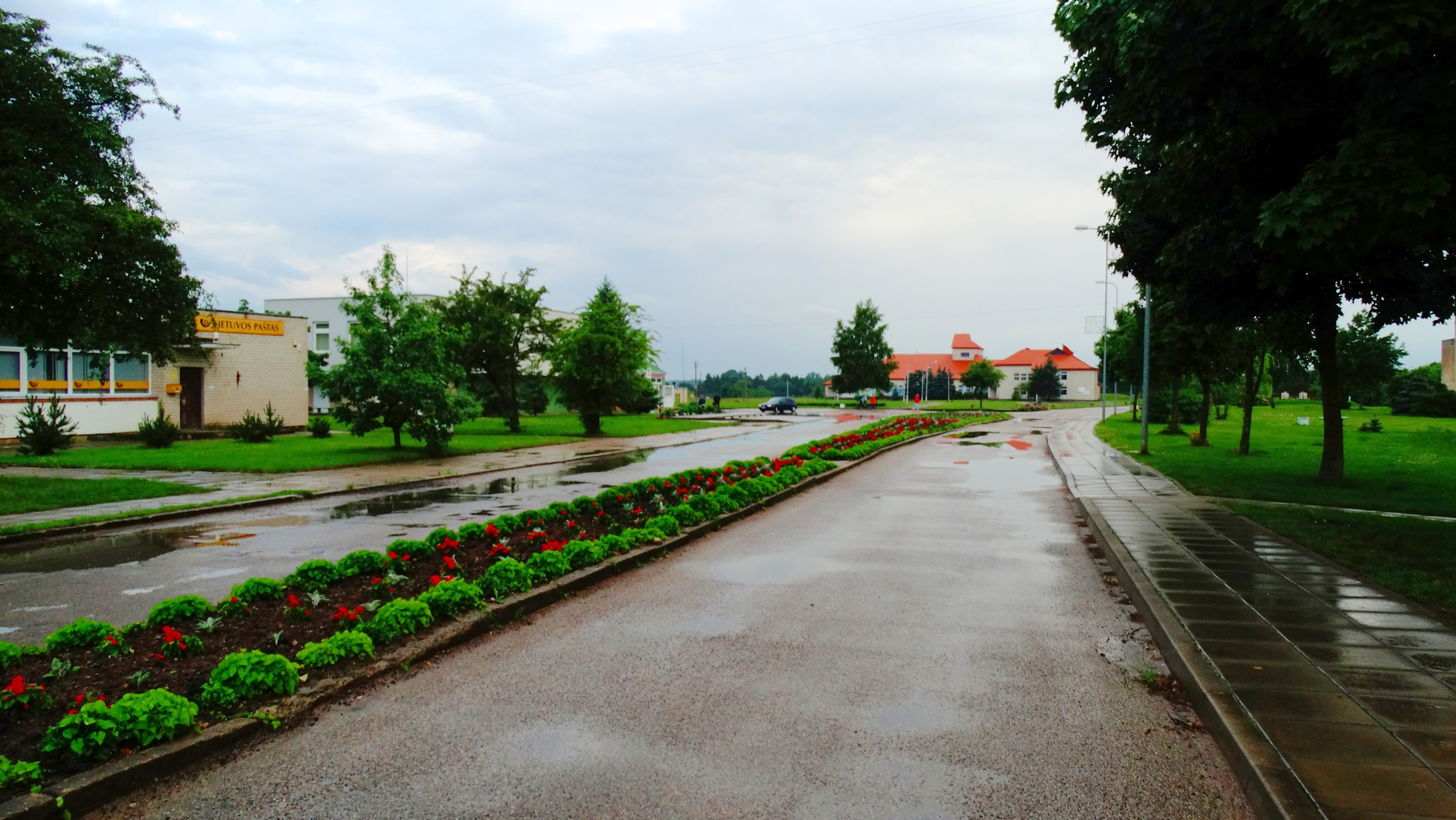 Upninkai, Jonava district, Lithuania